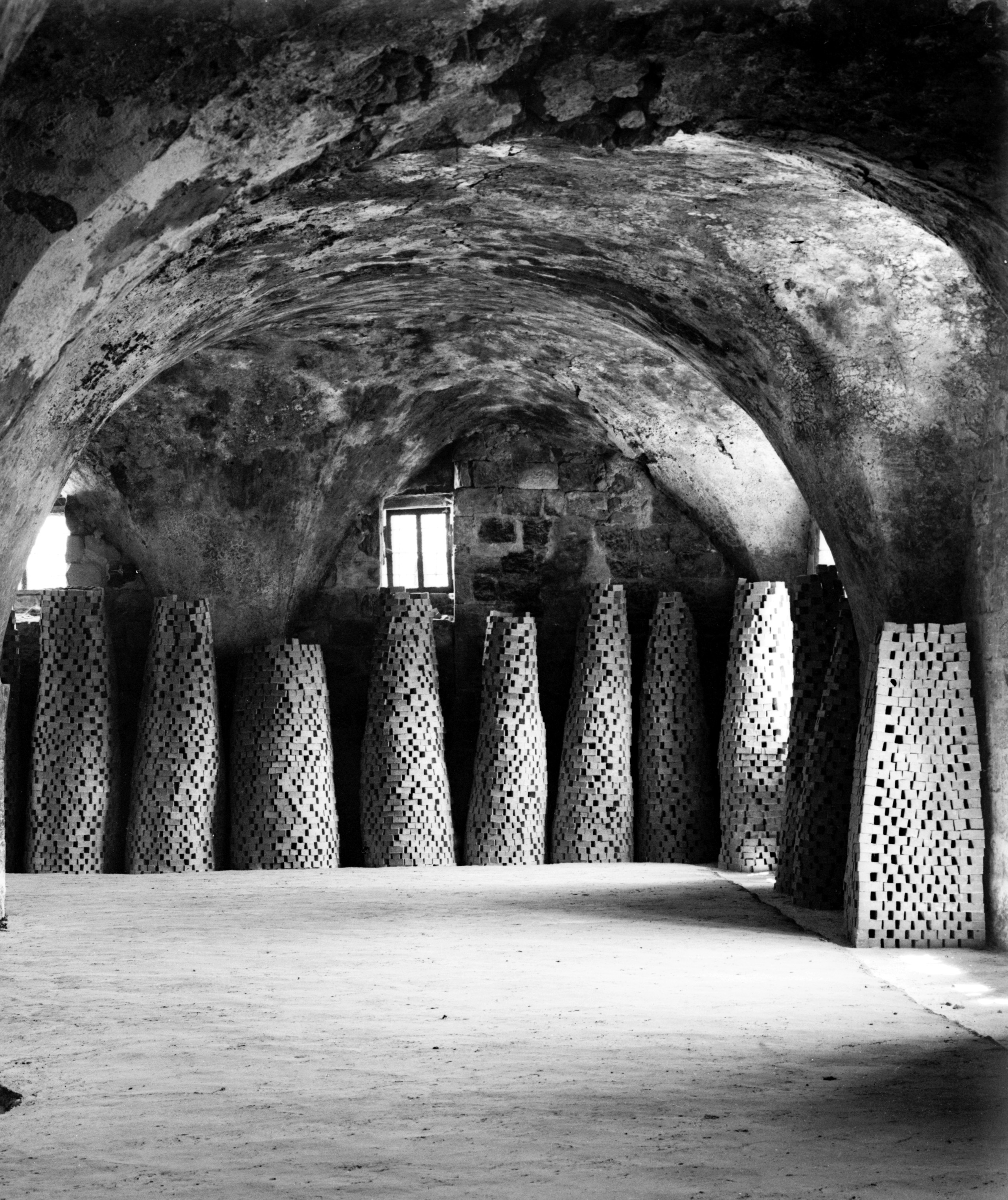 Various types, etc. Nablus soap, stacked for drying.